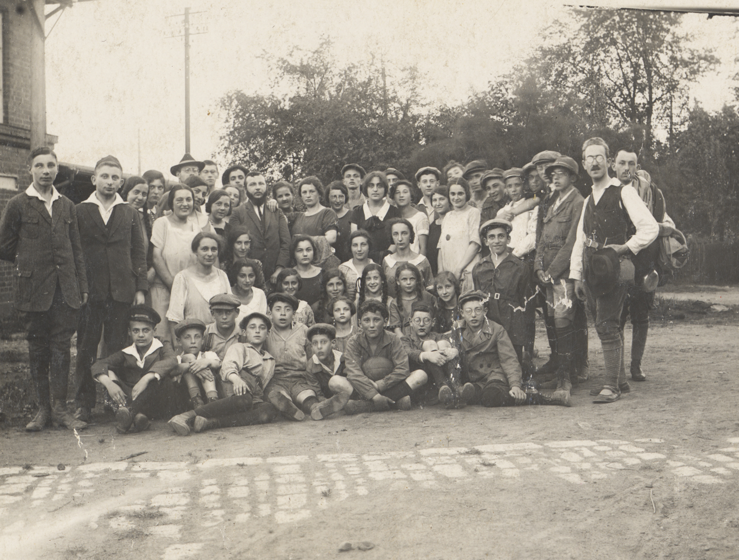 Ezra Germany 1923 Wirzburg, Economy of Israel